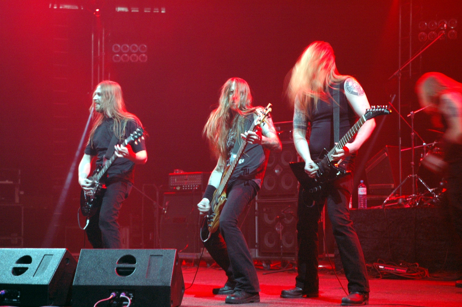 Amon Amarth band at Metalmania Festival 2005 in Poland